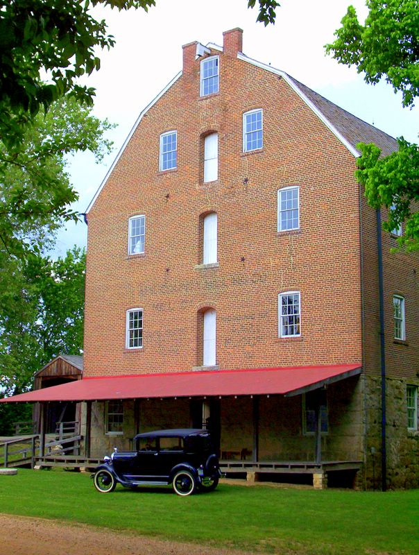 Bollinger Mill near Jackson, Missouri. Old Ford parked in front. (Note that this is a new picture with an old car, not an old picture with a new car.)